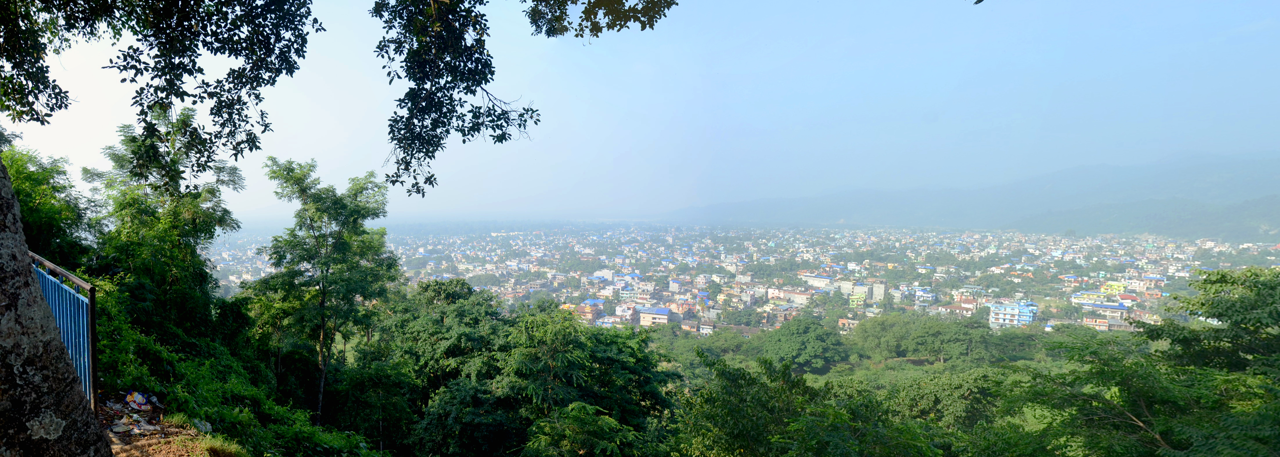 Dharan city from Buda Subba height 2013